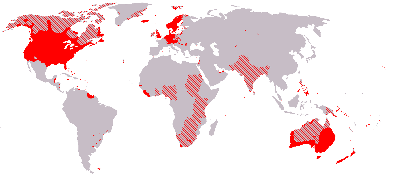 New map showing the spread of Germanic languages. Solid red indicates that a majority of inhabitants speaks a Germanic language. Striped red indicates that a sizeable minority (more than 10%) speaks a Germanic language.